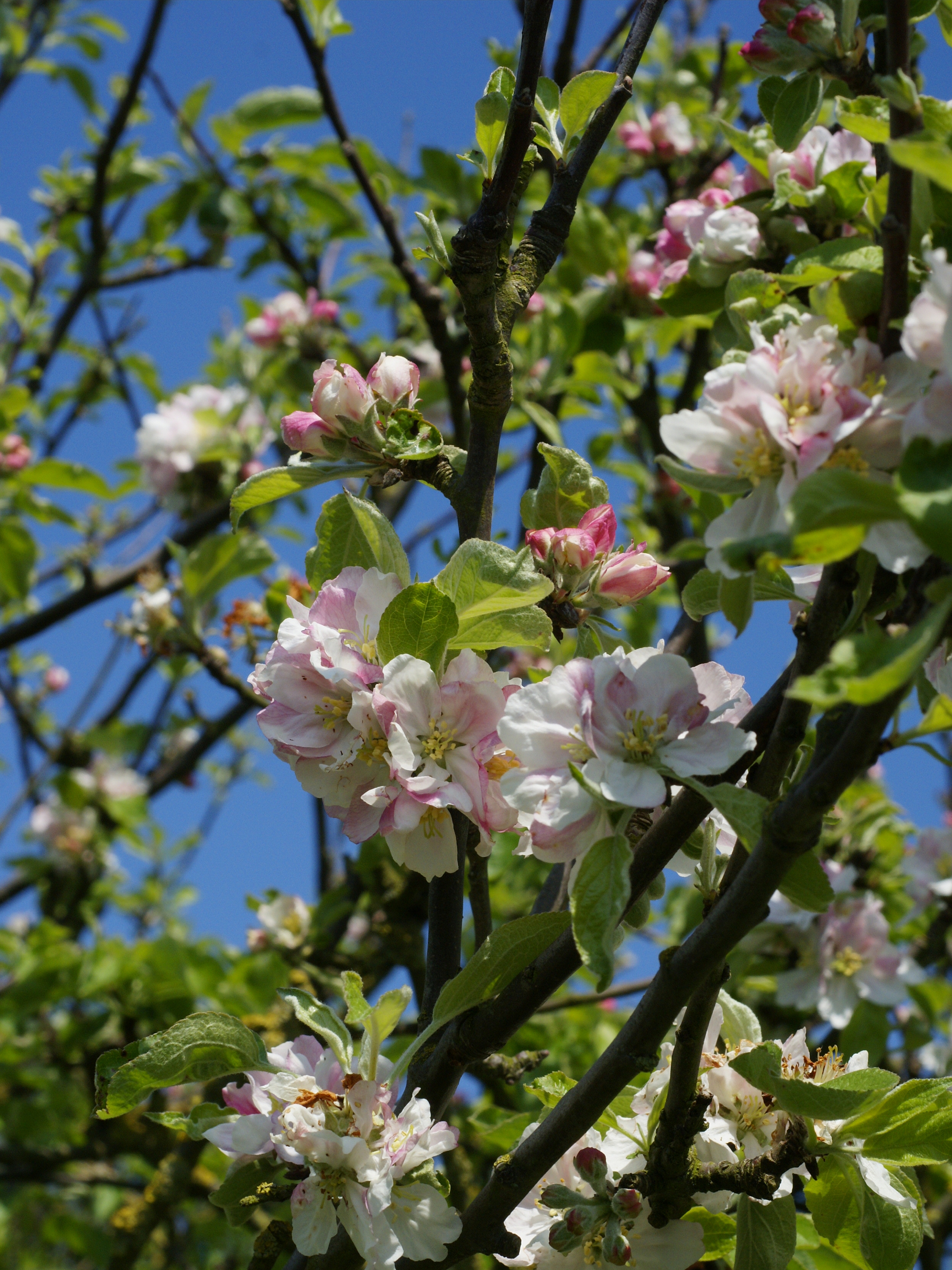 Malus sylvestris at Vosseslag - De Haan, Belgium